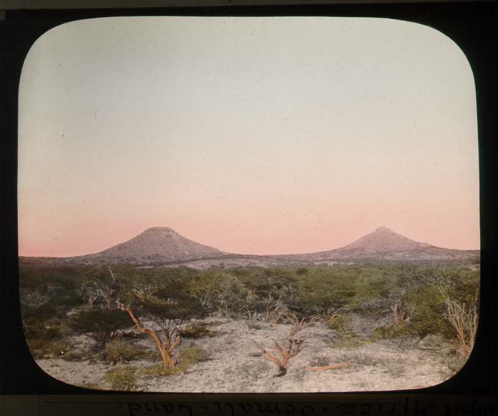 Virgin's Breast Mountain. 1896. Name of Expedition: Africa Expedition Participants: D.G. Elliot and Carl Akeley Expedition Date: 1896 Purpose or Aims: Zoology Mammals Location:Africa, Somalia Original material: Hand-colored glass lantern slide Digital Identifier: CSZ5948_LS Learn more about The Field Museum's Library Photo Archives.